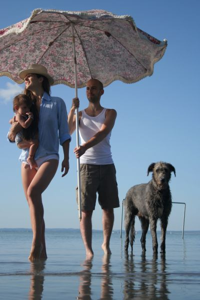 Juhász Tibor portré